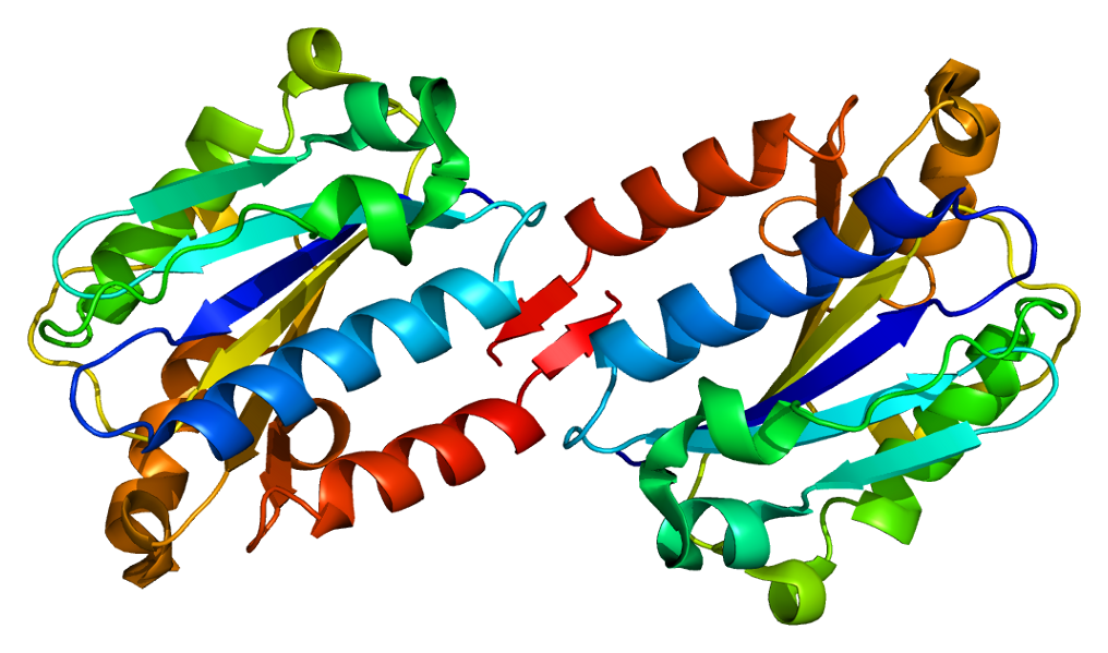 Structure of the ITGAL protein. Based on PyMOL rendering of PDB 1cqp.